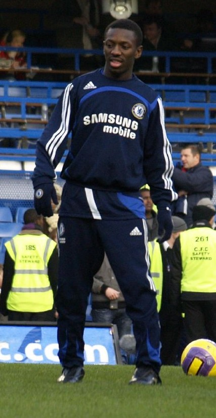 Shaun Wright-Phillips